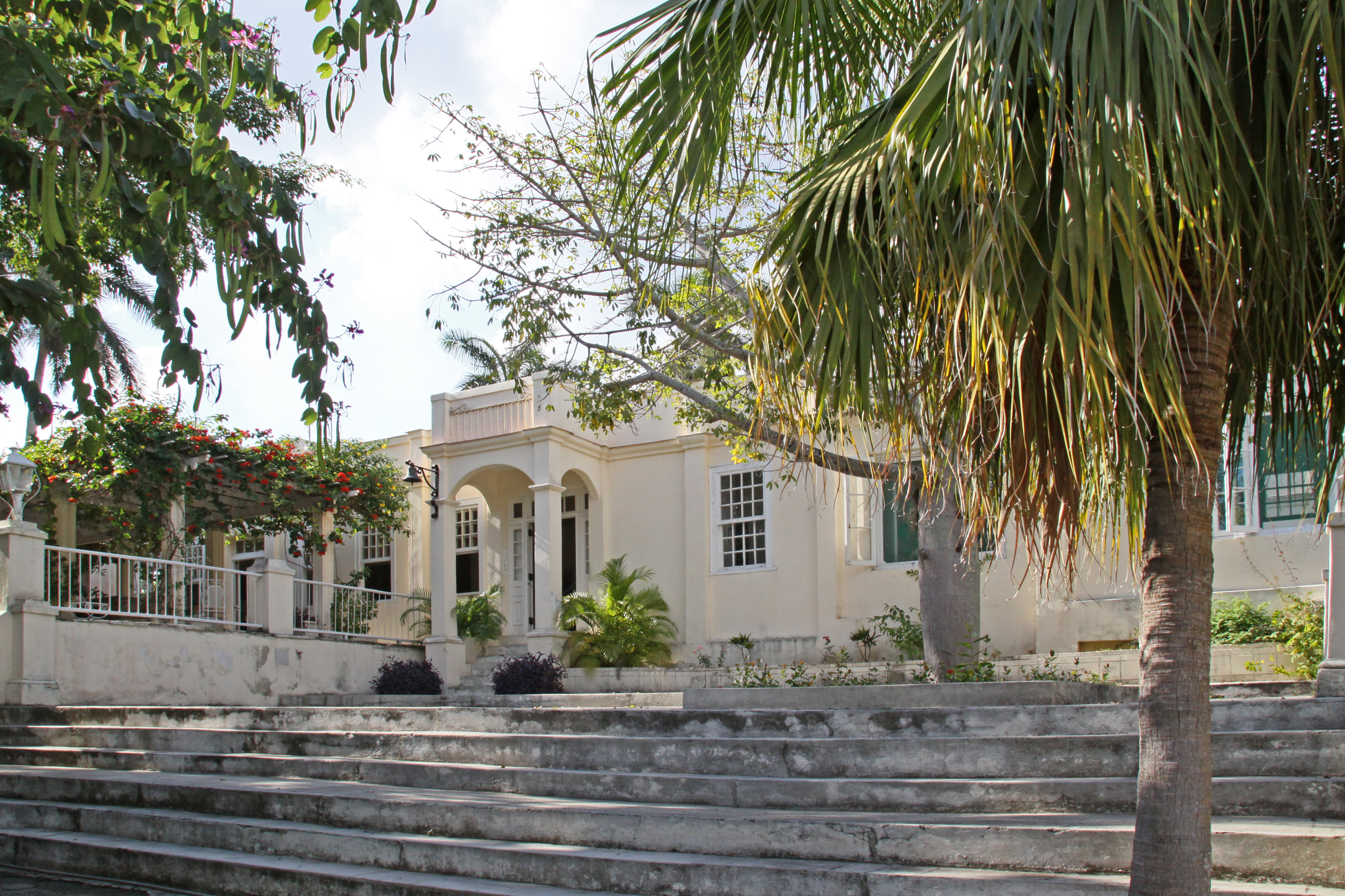 Hemingways House